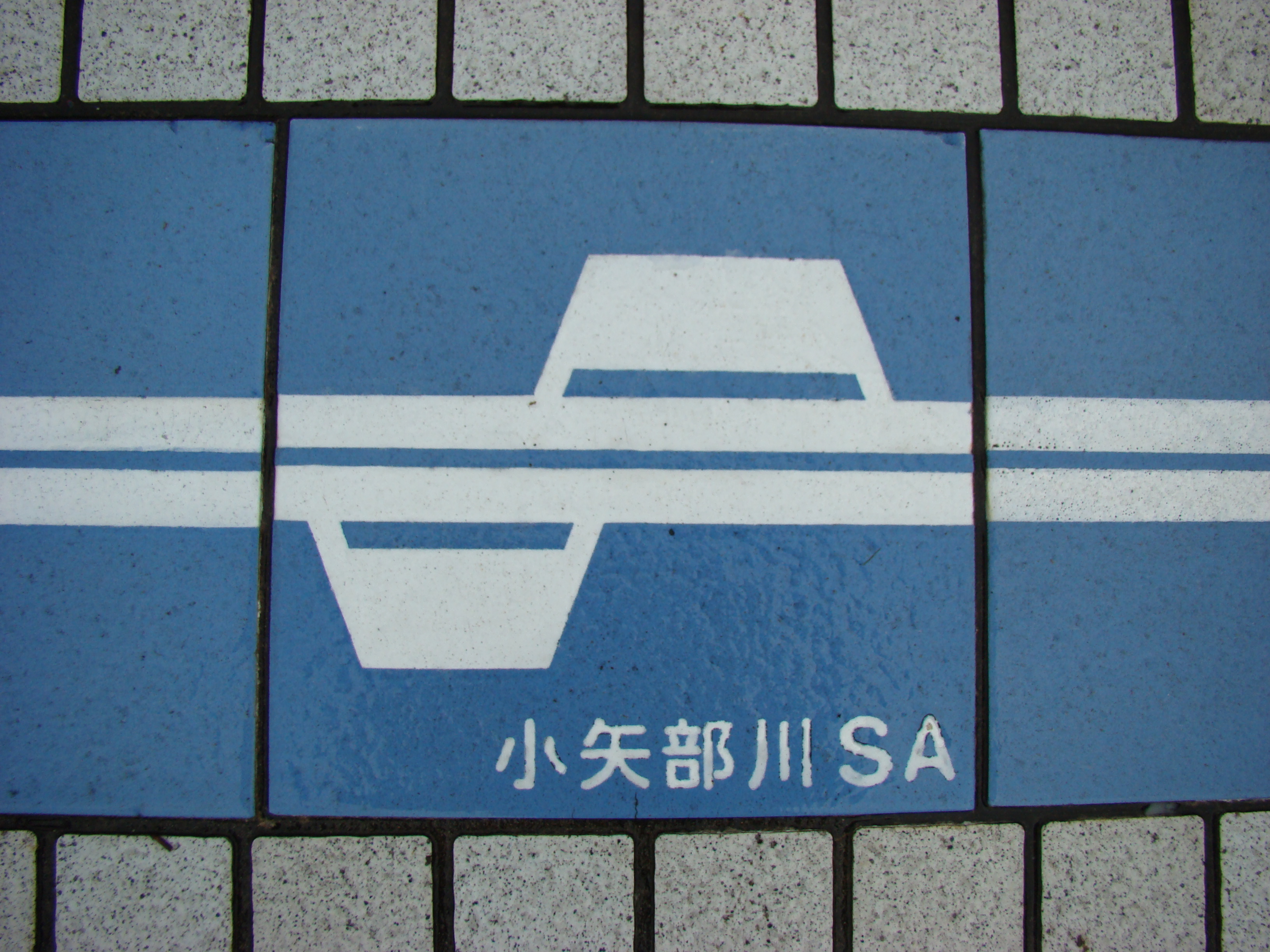 Tile which shows the shape of Oyabegawa Service Area on the Hokuriku Expressway, installed at Nadachi Tanihama Service Area in Chayagahara, Joetsu City, Niigata Prefecture, Japan